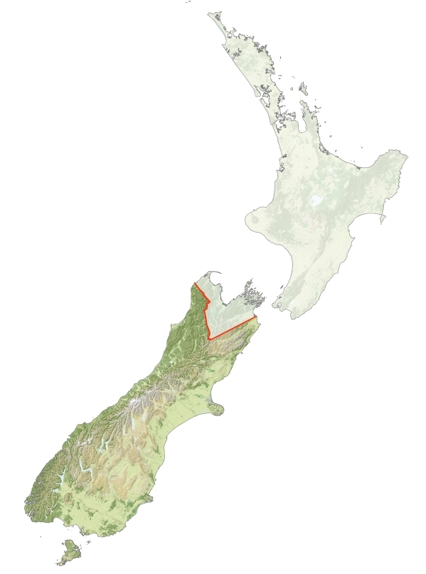 This file is an image showing the land recognised as Ngāi Tahu's under the NTCSA 1998